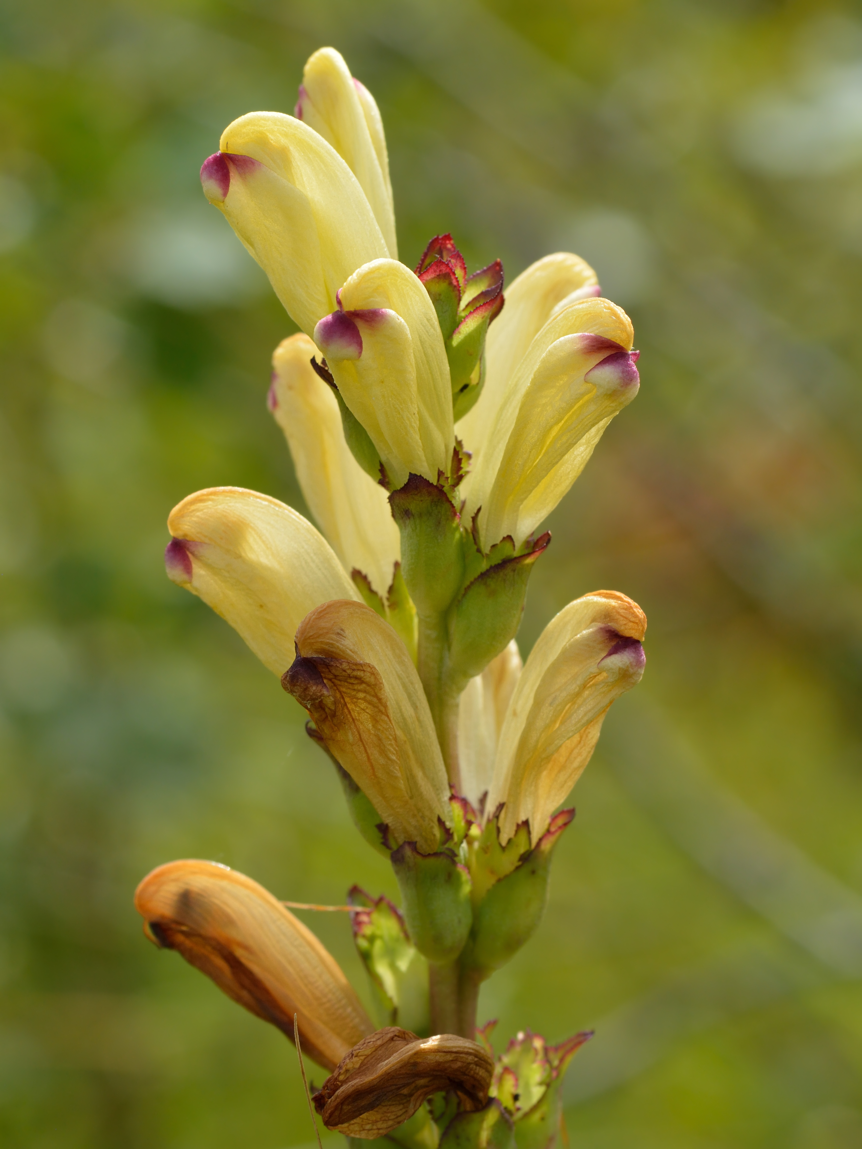 Inflorescence of the moor-king (Pedicularis sceptrum-carolinum). Niitvälja bog, Northwestern Estonia.